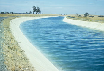 A section of the Delta-Mendota Canal in Northern California